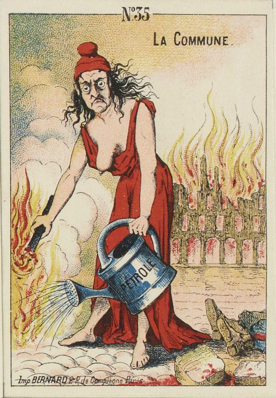 An anti-communard propaganda postcard, postally used in July 1871, some weeks after the fall of the Paris Commune